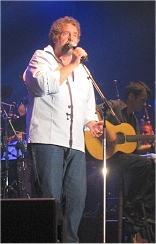 Gilles Servat at a concert in Lorient, Brittany